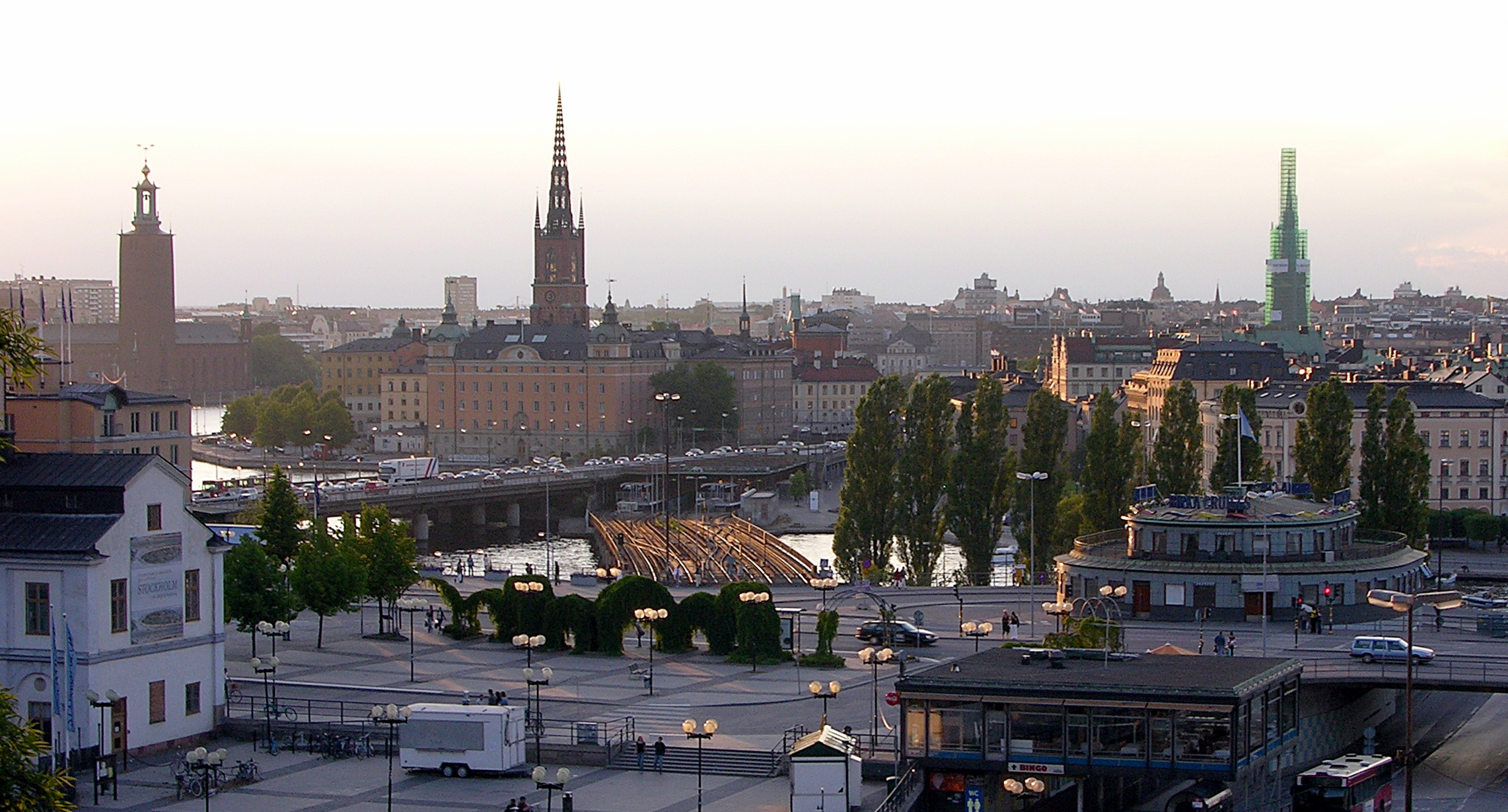 Södermalmstorg (the Square of Södermalm) seen from Södermalm with Ryssgården and Ryssgårdstorget to the left and in the foreground. Behind it is Centralbron (Central Bridge) and the skyline of Stockholm with City Hall, Riddarholmskyrkan, and Tyska kyrkan (the German church, being renovated) being the most noticeable landmarks.